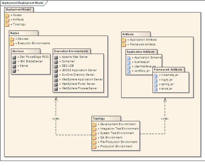 A sample UML package diagram